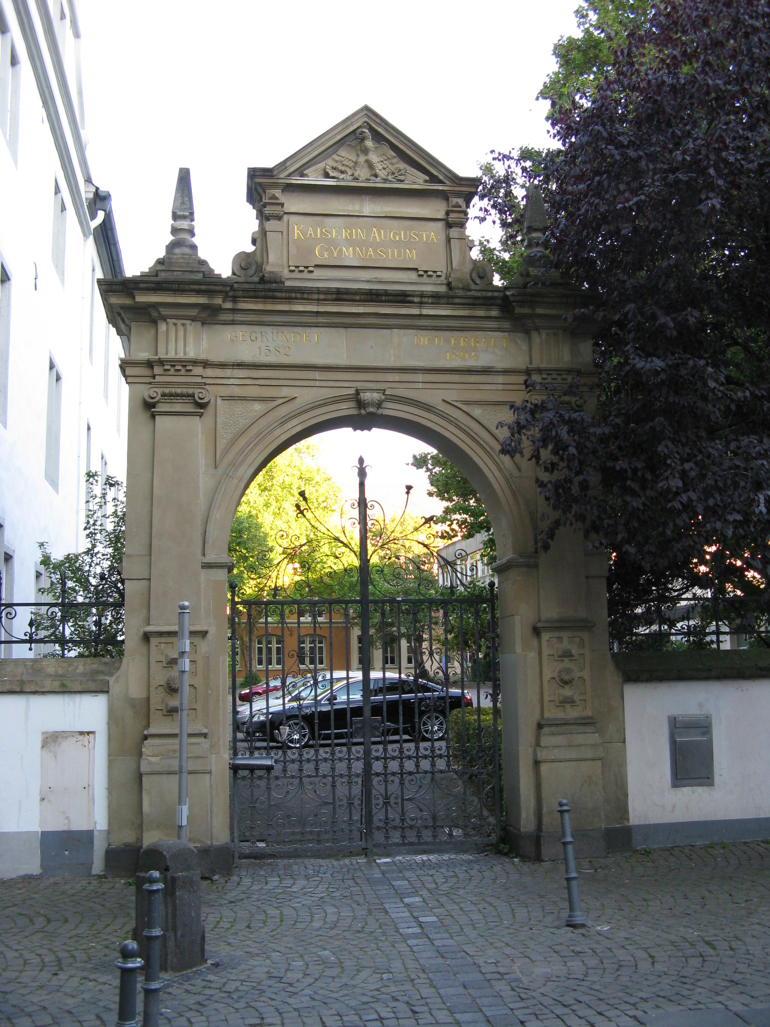 Entrance Görresgymnasium Koblenz